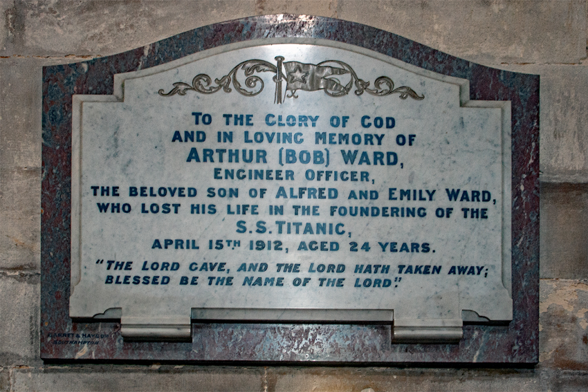 A memorial plaque in Romsey Abbey to Arthur (Bob) Ward, an engineer officer on the Titanic.